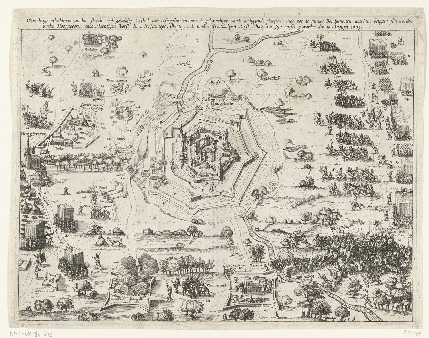 Relief of the Spanish mutineers at the castle of Hoogstraten in August 1603 by Maurice of Nassau